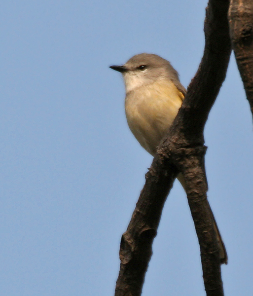 Small Minivet Pericrocotus cinnamomeus in Hyderabad, India.